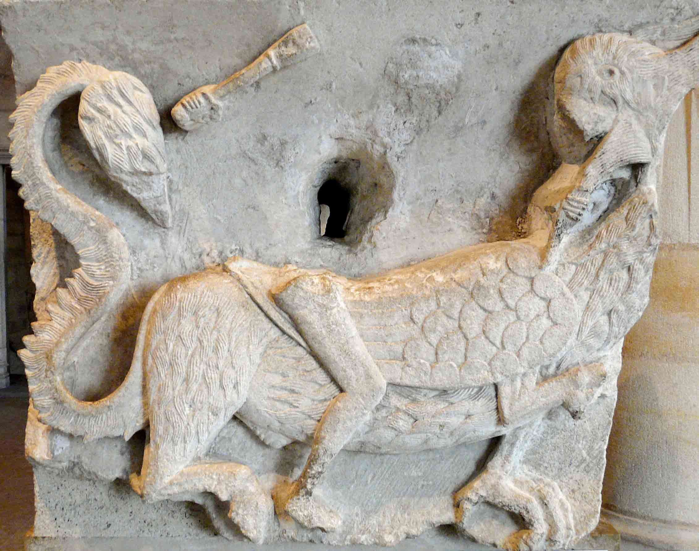 Hippogriff. Romanesque. Museum of Autum Cathedral (France). Remains of horseback character. Combat between Good and Evil.